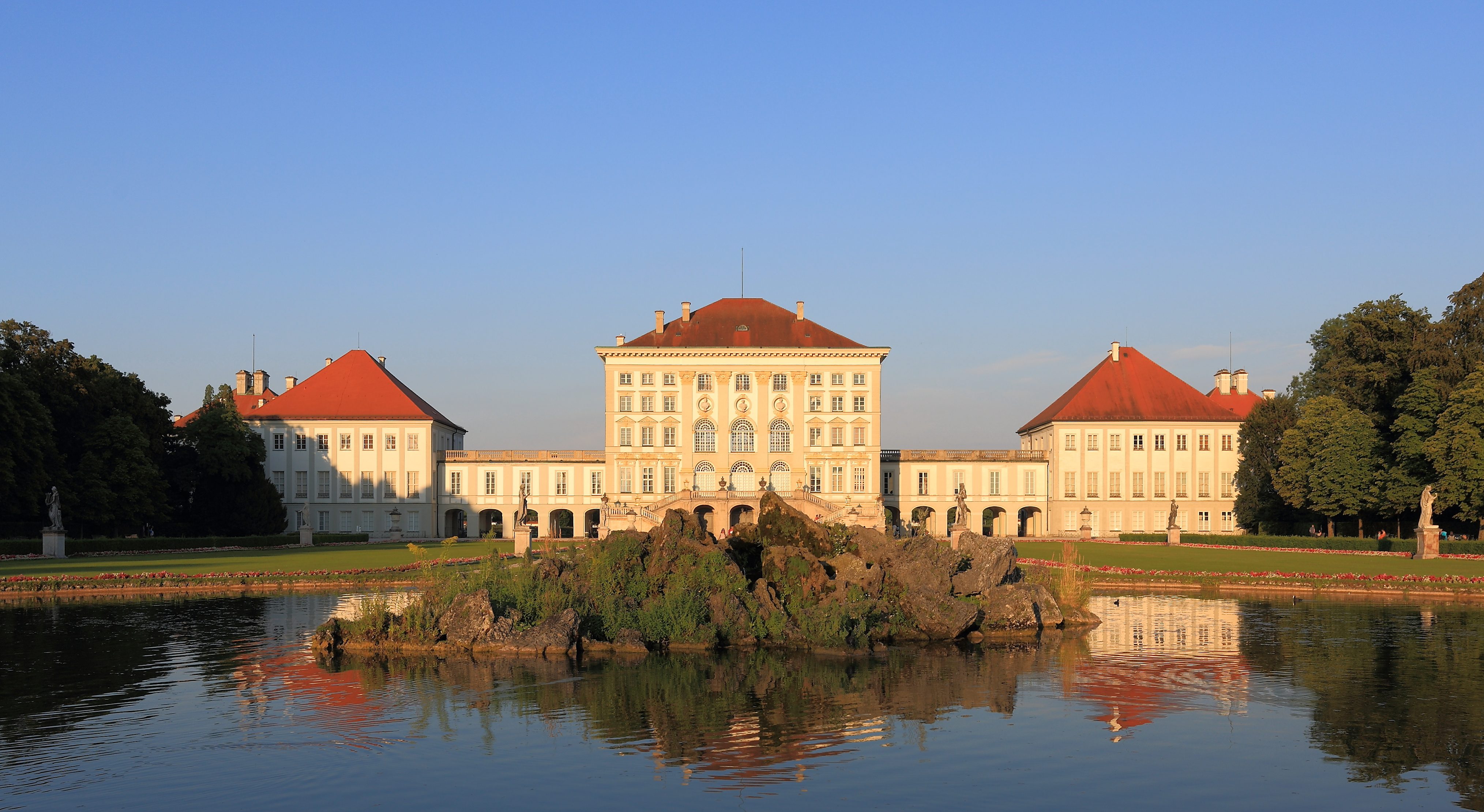 Nymphenburger Schloss at sunset.